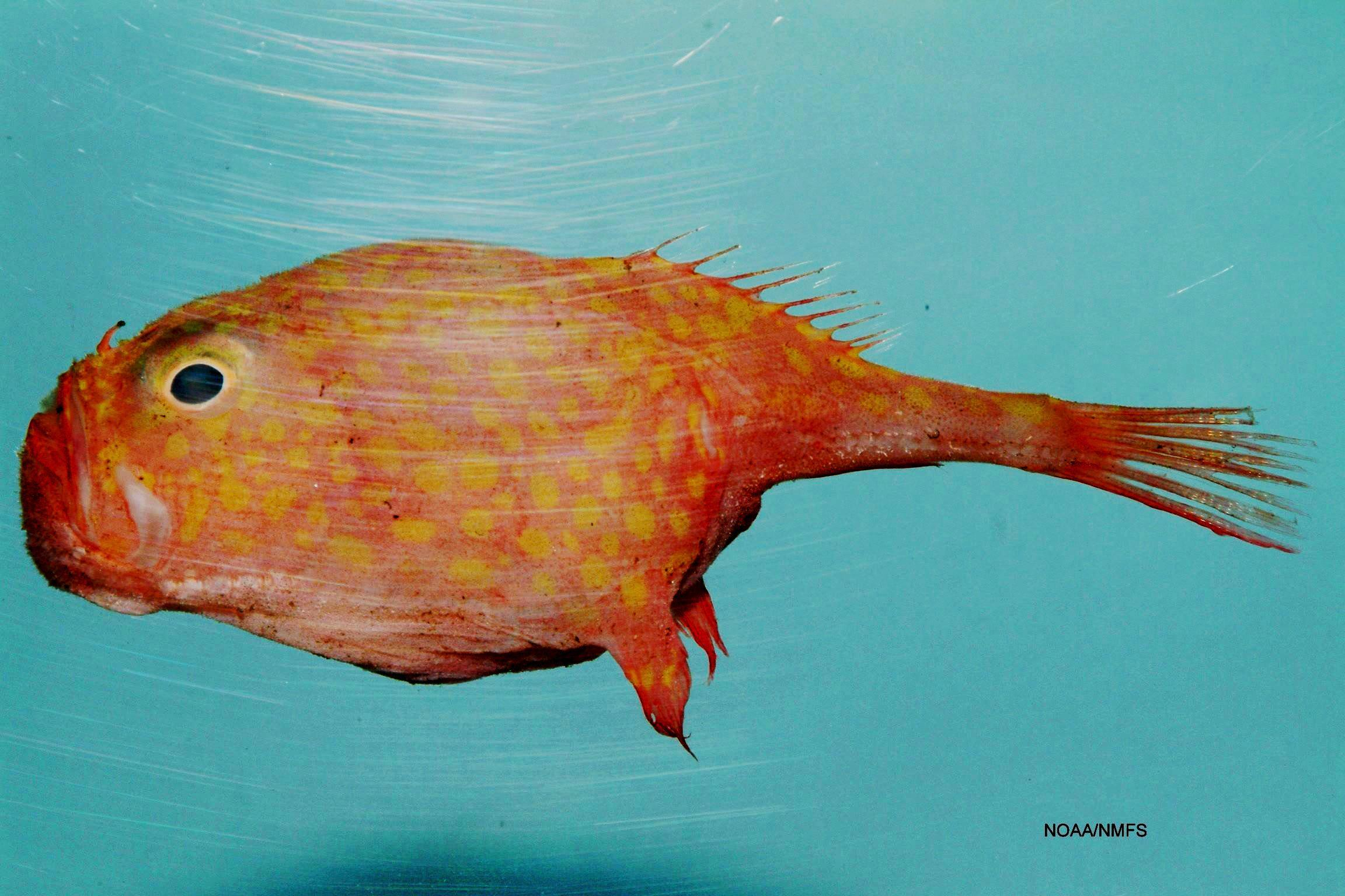 Chaunax suttkusi from the Gulf of Mexico